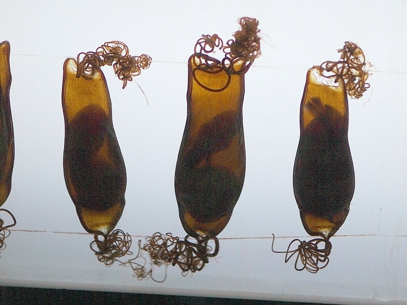 Egg capsules of the cloudy catshark (Scyliorhinus torazame) at the Shinagawa Aqua Stadium